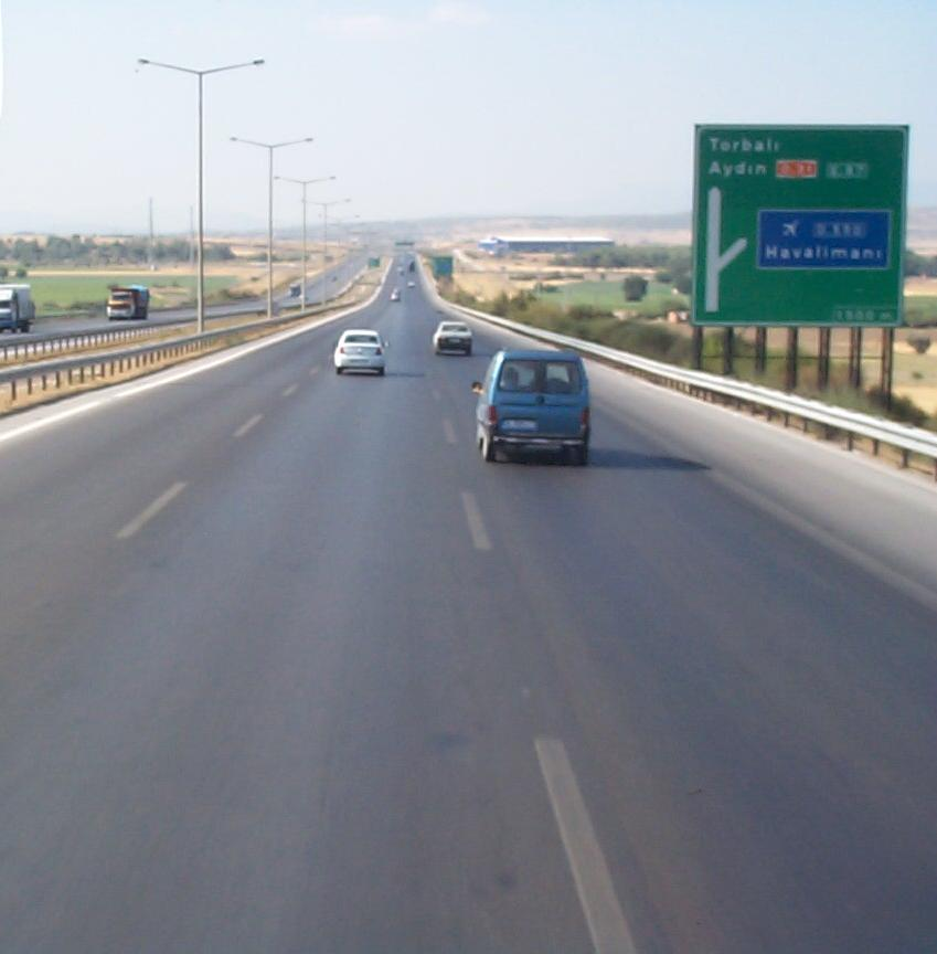 Turkish highway Otoyol 31 in the greater Izmir area